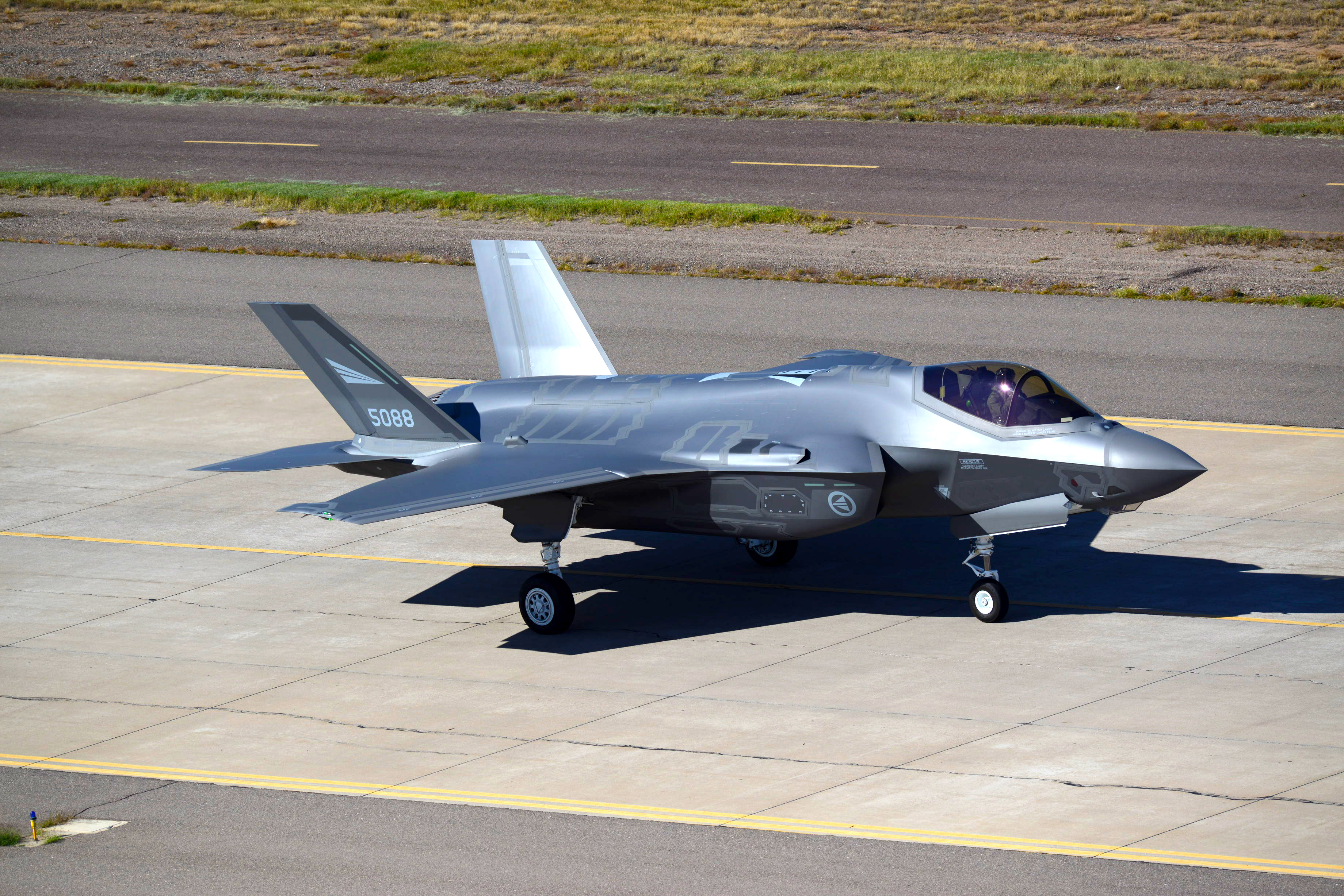 Norway’s first F-35 Lightning II taxis to the parking ramp November 11, 2015, at Luke Air Force Base, Arizona. The first two Royal Norwegian air force F-35s arrived at Luke in conjunction with their air force birthday.